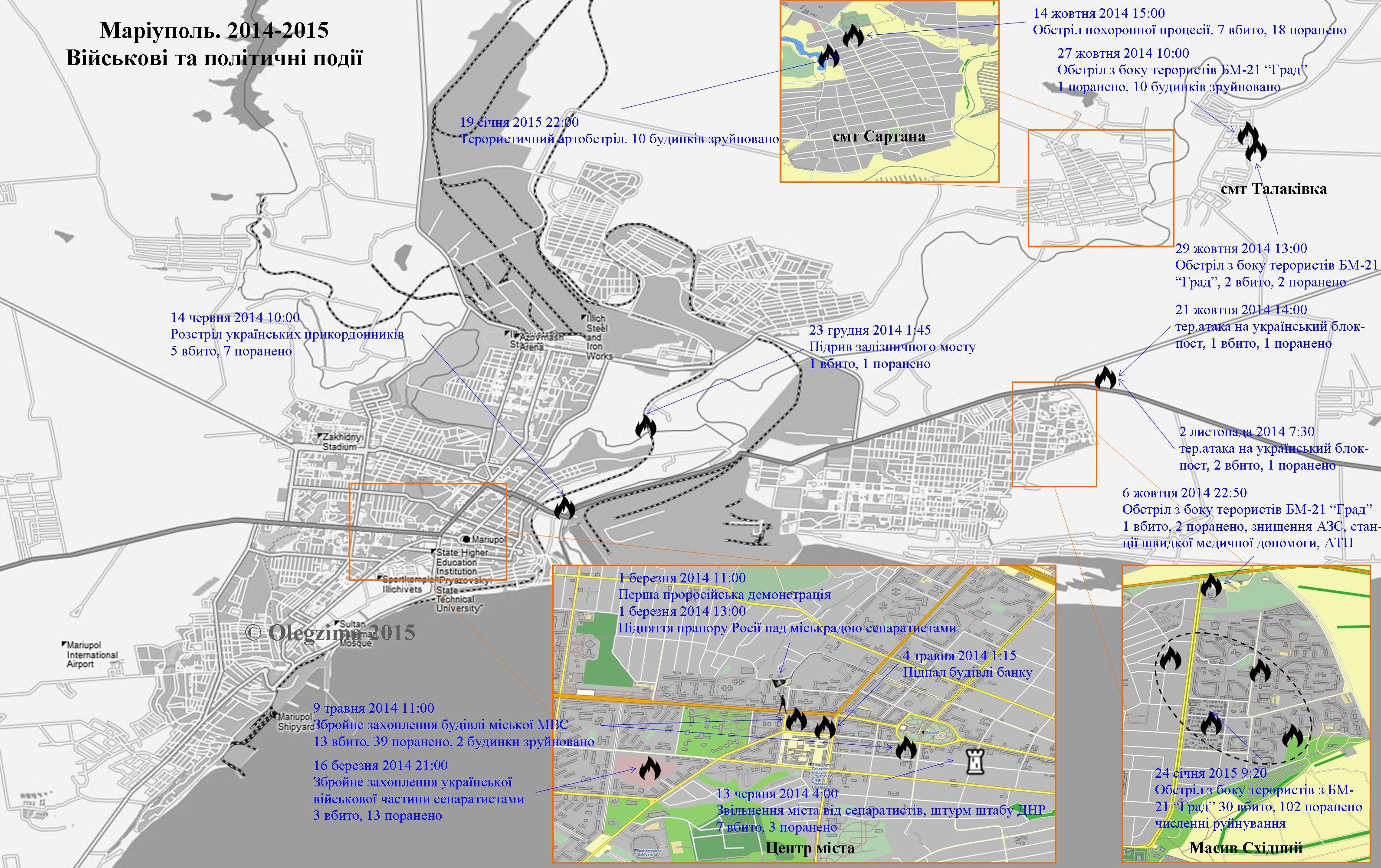 Mariupol. 2014-2015. Military and political events.